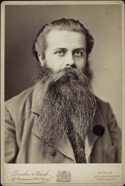 The german philosopher Eduard von Hartmann (1842—1906)